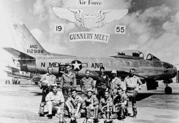 U.S. Air Force personnel from the 188th Fighter Squadron, New Mexico Air National Guard with a North American F-86E-15-NA Sabre fighter (s/n 51-12988) in 1955.